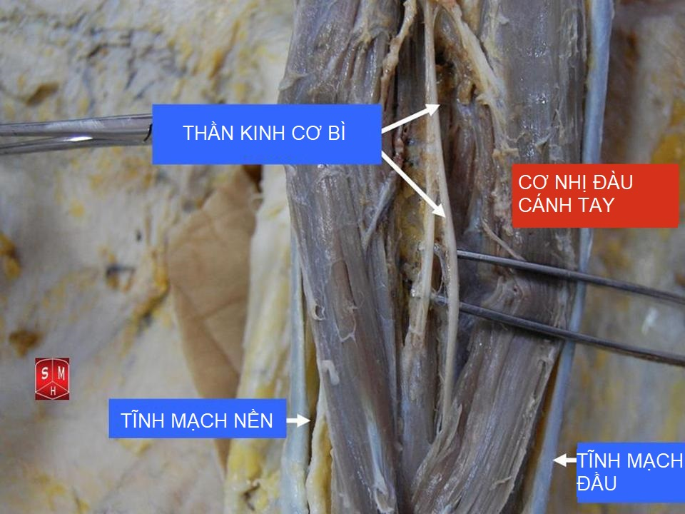 Musculocutaneous nerve